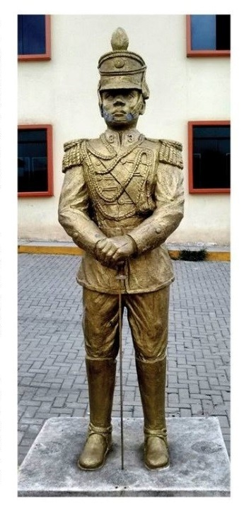 Pedro Potenciano Choquehuanca